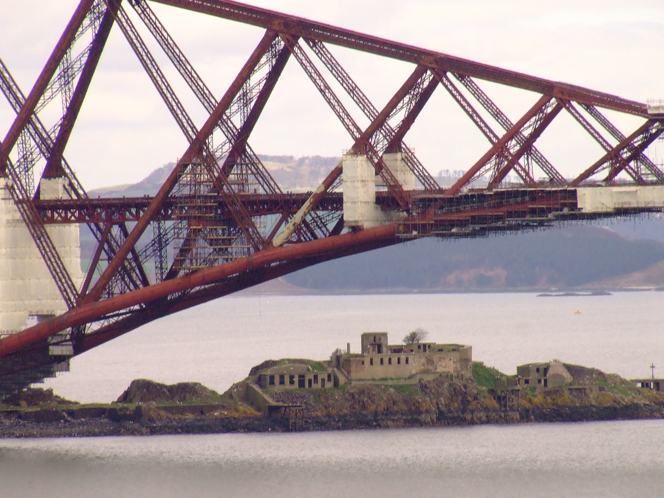 The island of Inchgarvie, in the Firth of Forth, Scotland, which supports the Forth Bridge.